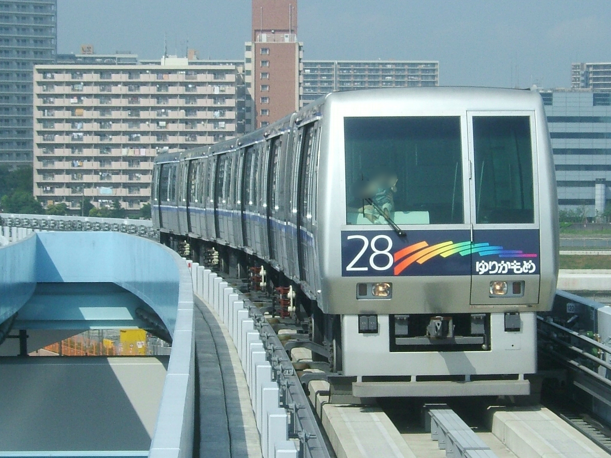 New transit 'Yurikamome'